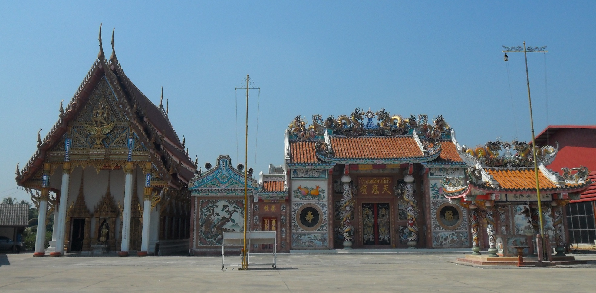 Wat Amon Yat – Thai Theravada Buddhist temple (left) and Chinese folk religion temple (right), Tambon Tha Nat, Damnoen Saduak District, Ratchaburi Province, Central Thailand